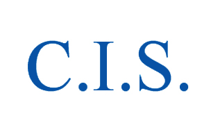 Flag of CIS